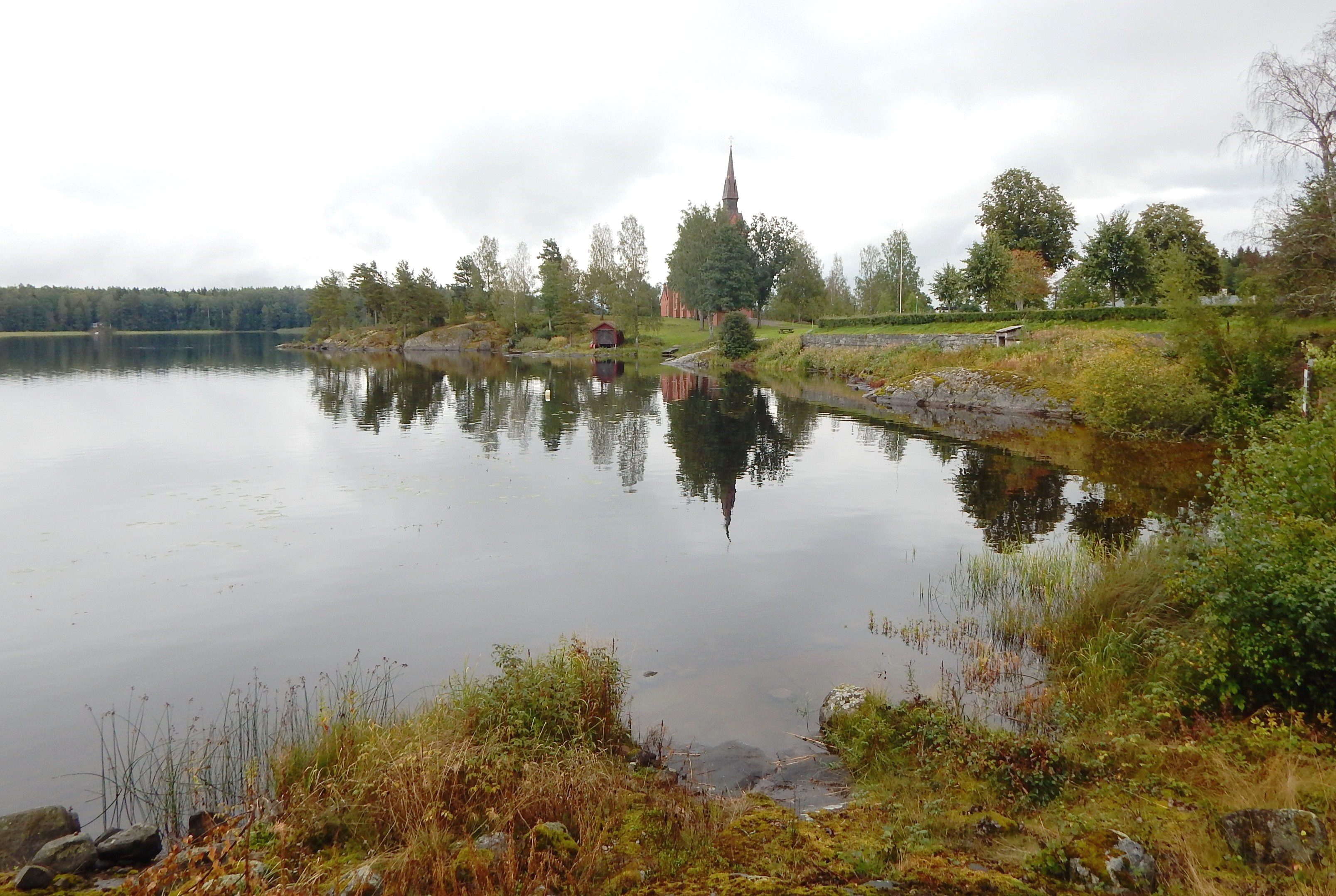 Lake Nysockensjön near Ny church